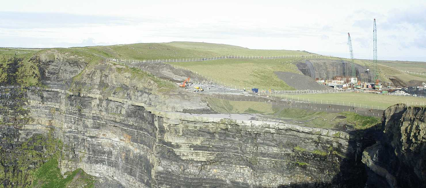 Building work at Cliffs of Moher, County Clare Ireland, Danny Burke